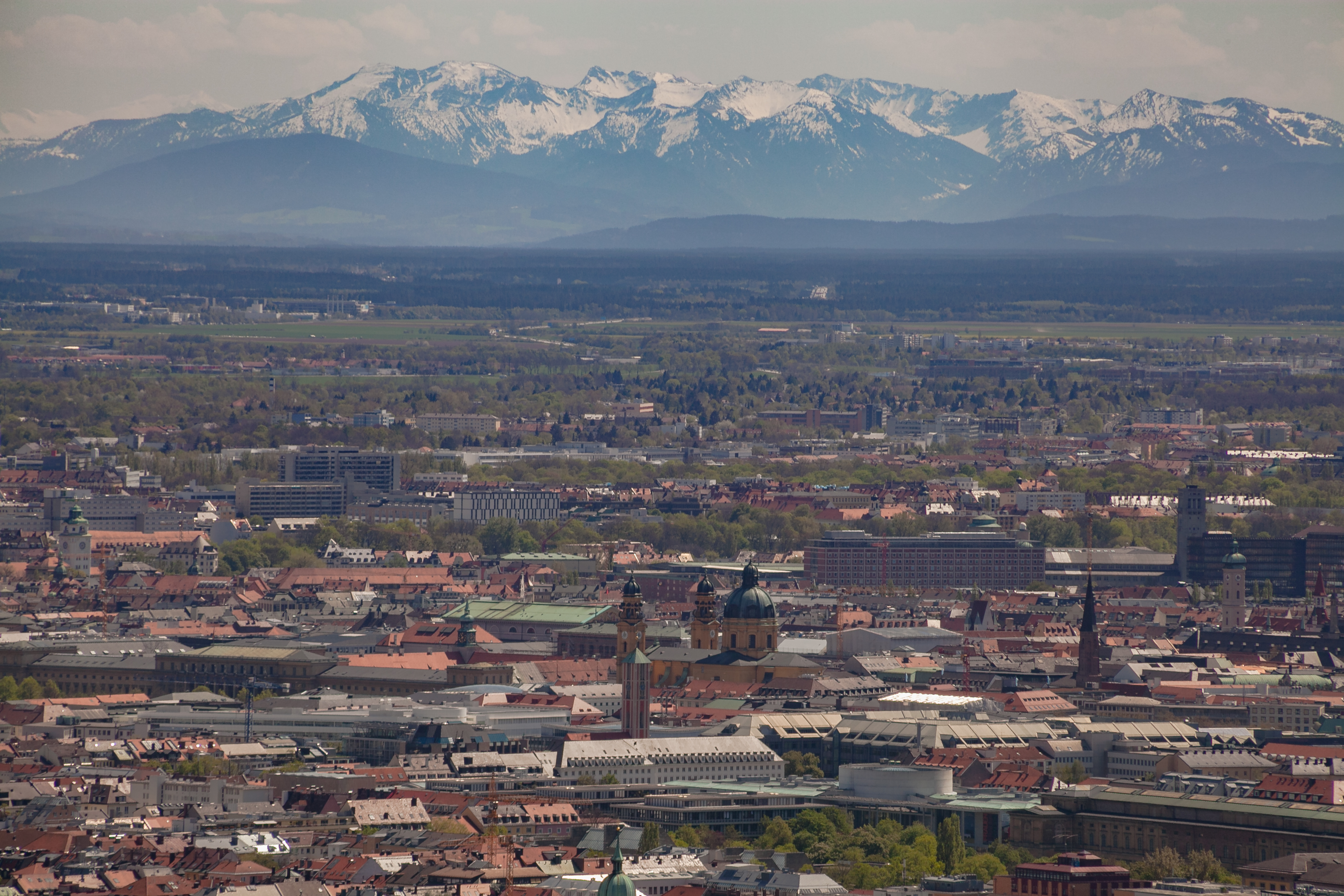 Panoramic view of Munich from Olympiaturm, Germany